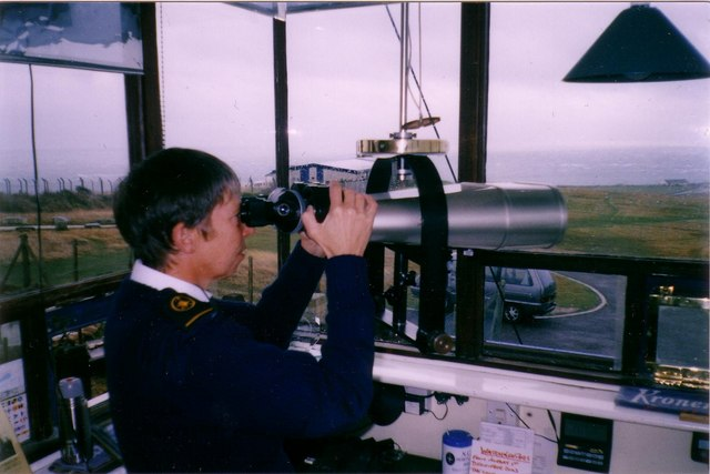 NCI lookout, Portland Bill Inside the National Coastwatch Institution lookout at Portland Bill before the rebuild.